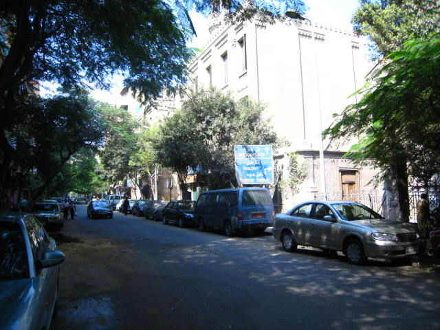 Covered... Shukalany Street, Shubra Town